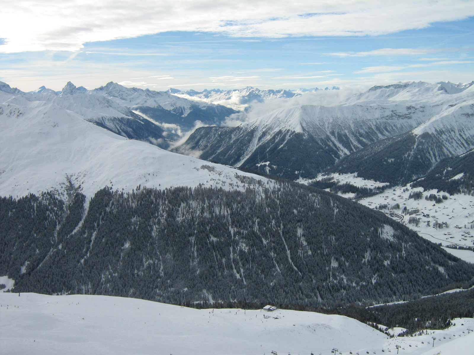 Dark trees covering snowy alps. – Grison Alps in Switzerland seen from Jakobshorn (2590m) above Davos, looking Southwest